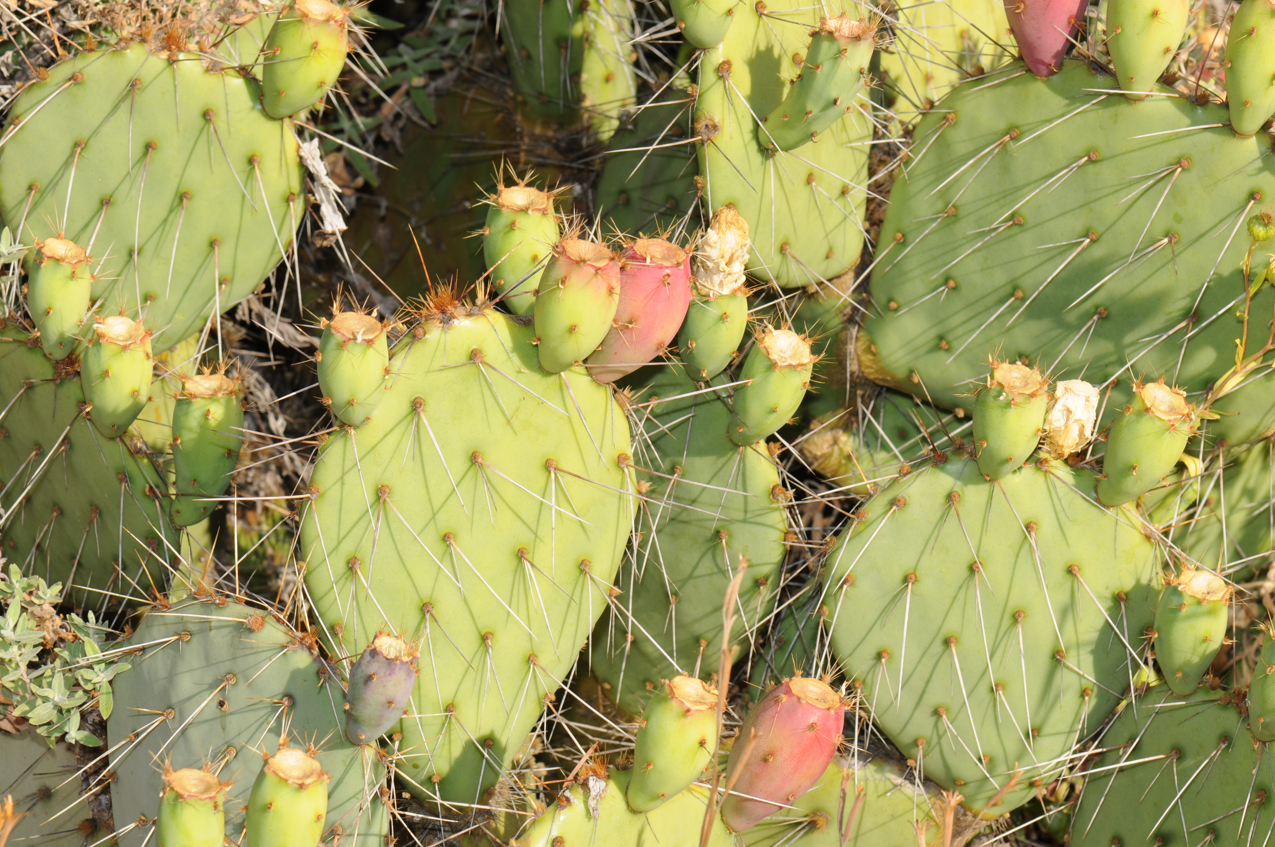 Opuntia phaeacantha var. discata (Engelmann Prickly Pear) at Regional Parks Botanic Garden. Plaque reads: "Engelmann Prickly Pear, Opuntia phaeacantha var. discata, 87,347 Cactaceae, Clark Mountains, San Bernardino County".